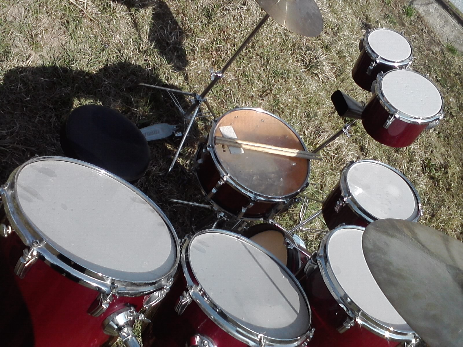 Czechoslovak drums Amati